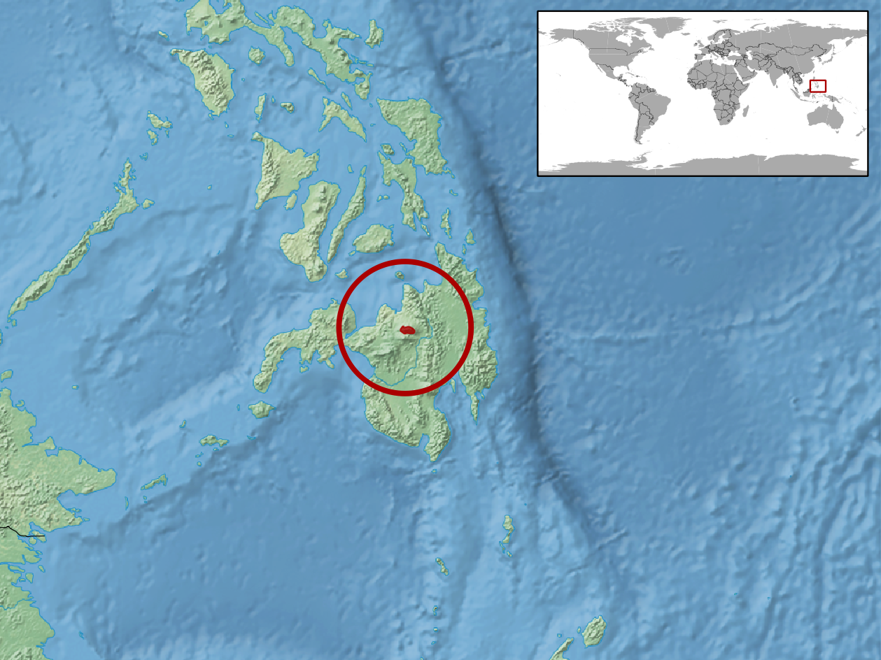 geographic distribution of Sphenomorphus kitangladensis (IUCN) syn Parvoscincus kitangladensis (RDB)